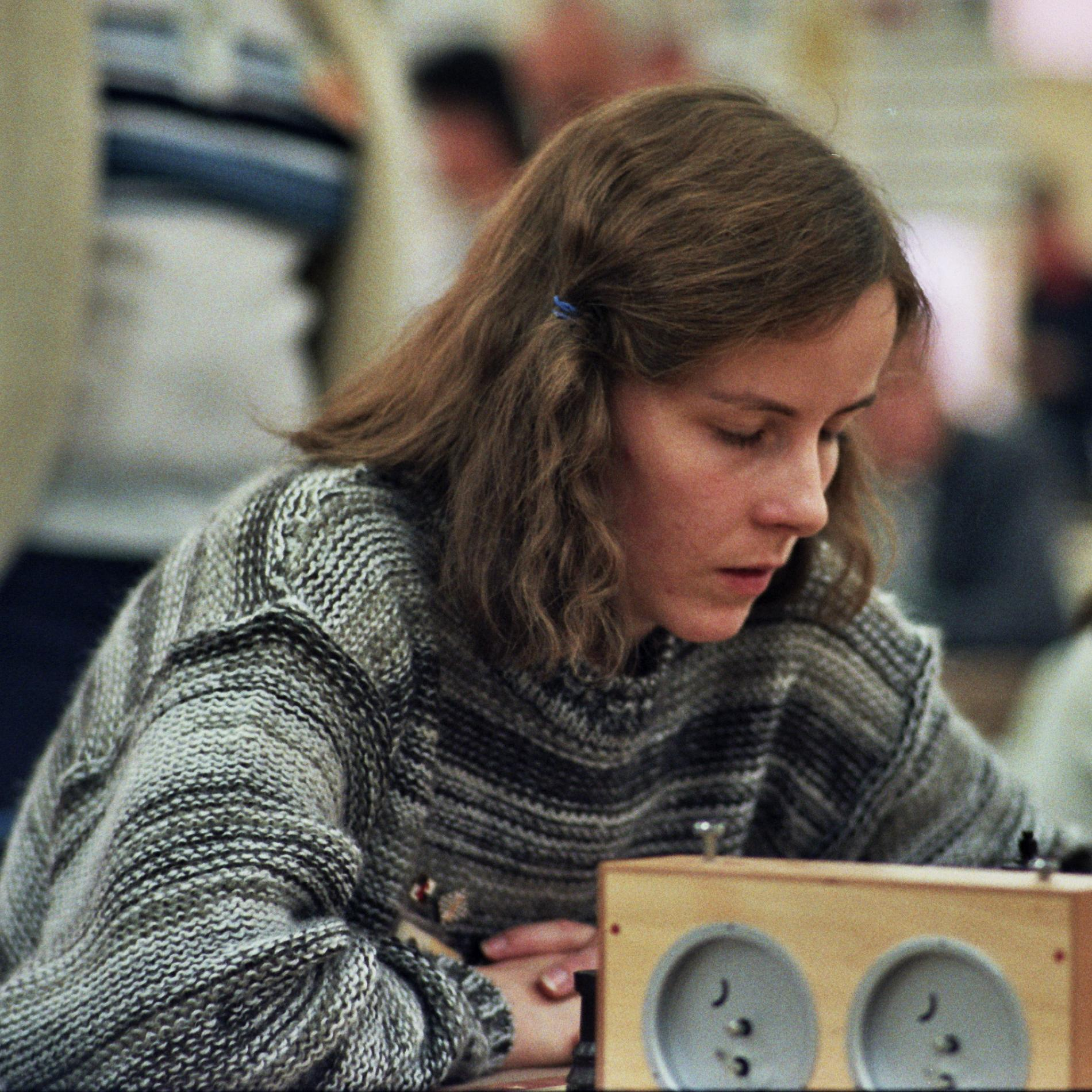 Barbara Hund, Chess Olympiad 1984 in Saloniki, Photographer Gerhard Hund.